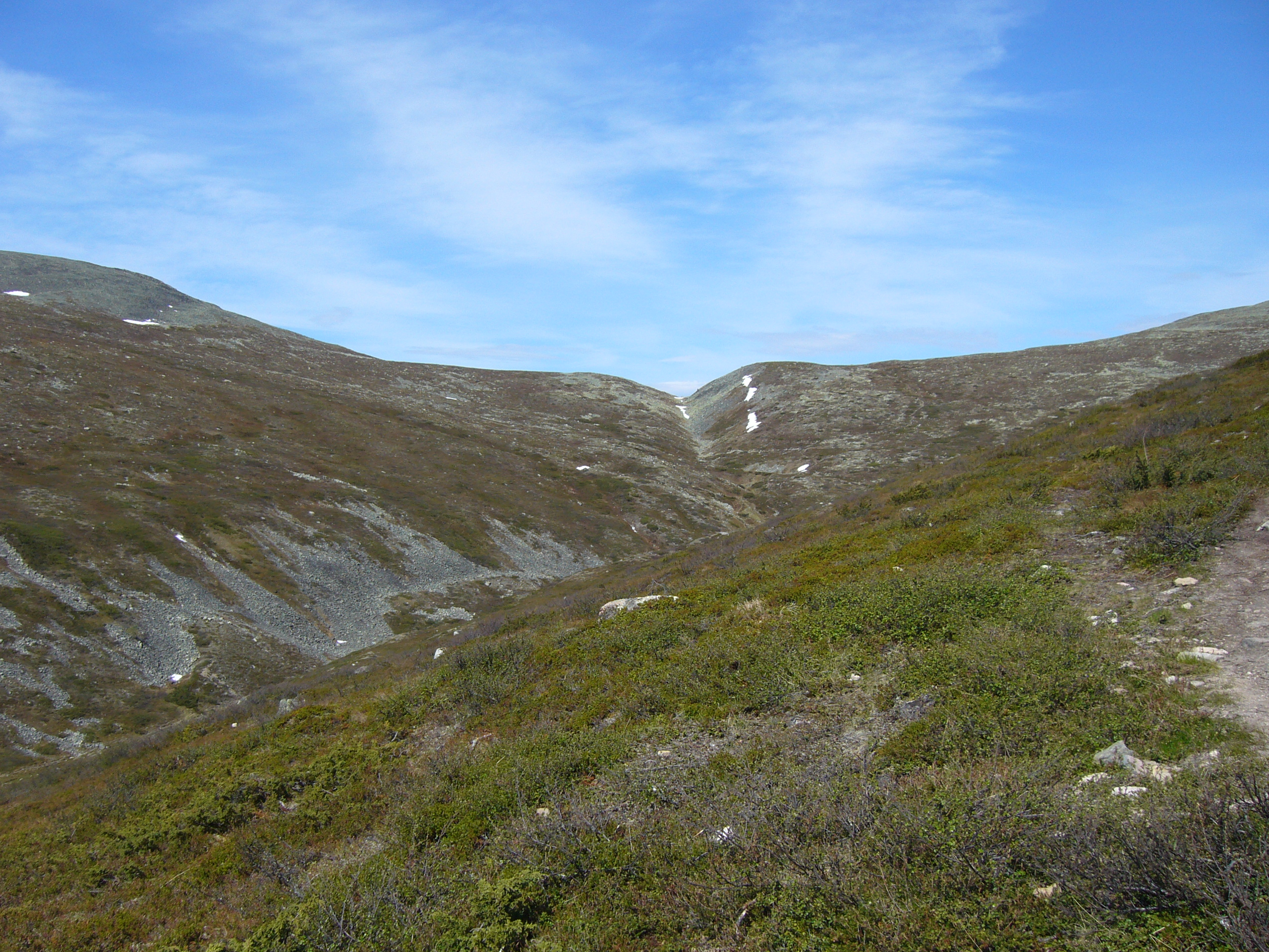 Pallas-Yllästunturi National Park in Muonio, Finland.